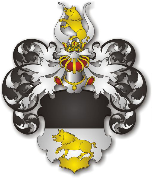 Coat of arms of Georg Adolf Dietrich von Rauch and his descendants